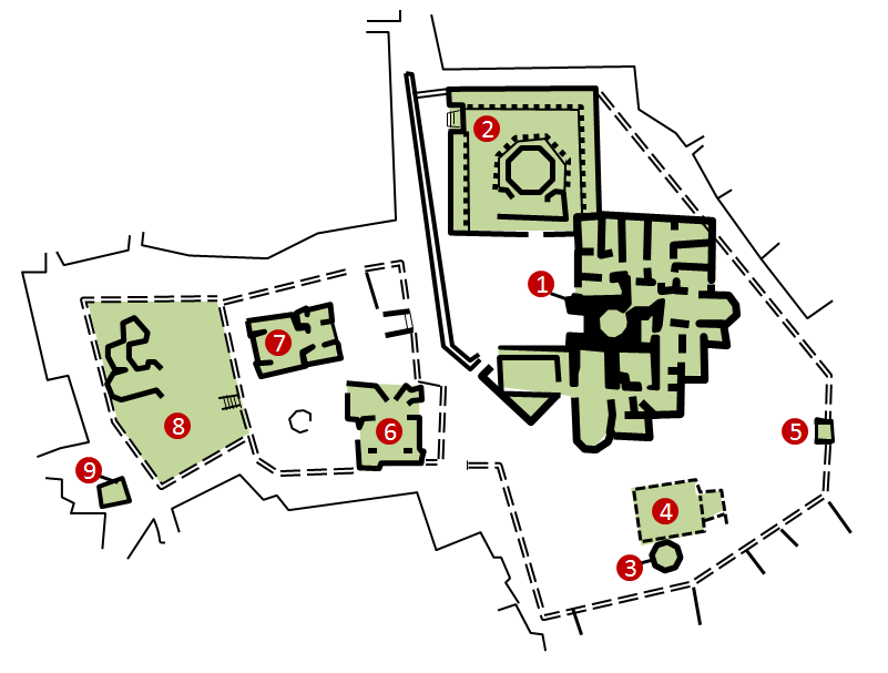 Plan of the Complex of The Palace of the Shirvanshahs